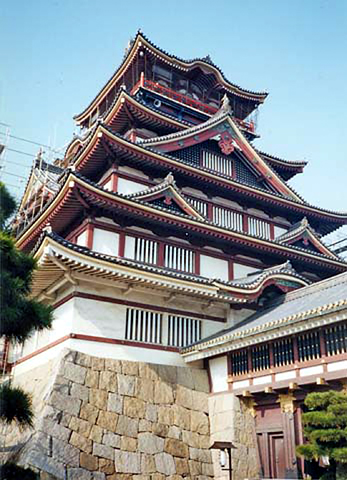 Fushimi Castle Kyoto Japan Reconstructed Original built by Toyotomi Hideyoshi I took this photograph and contribute it to the public domain.